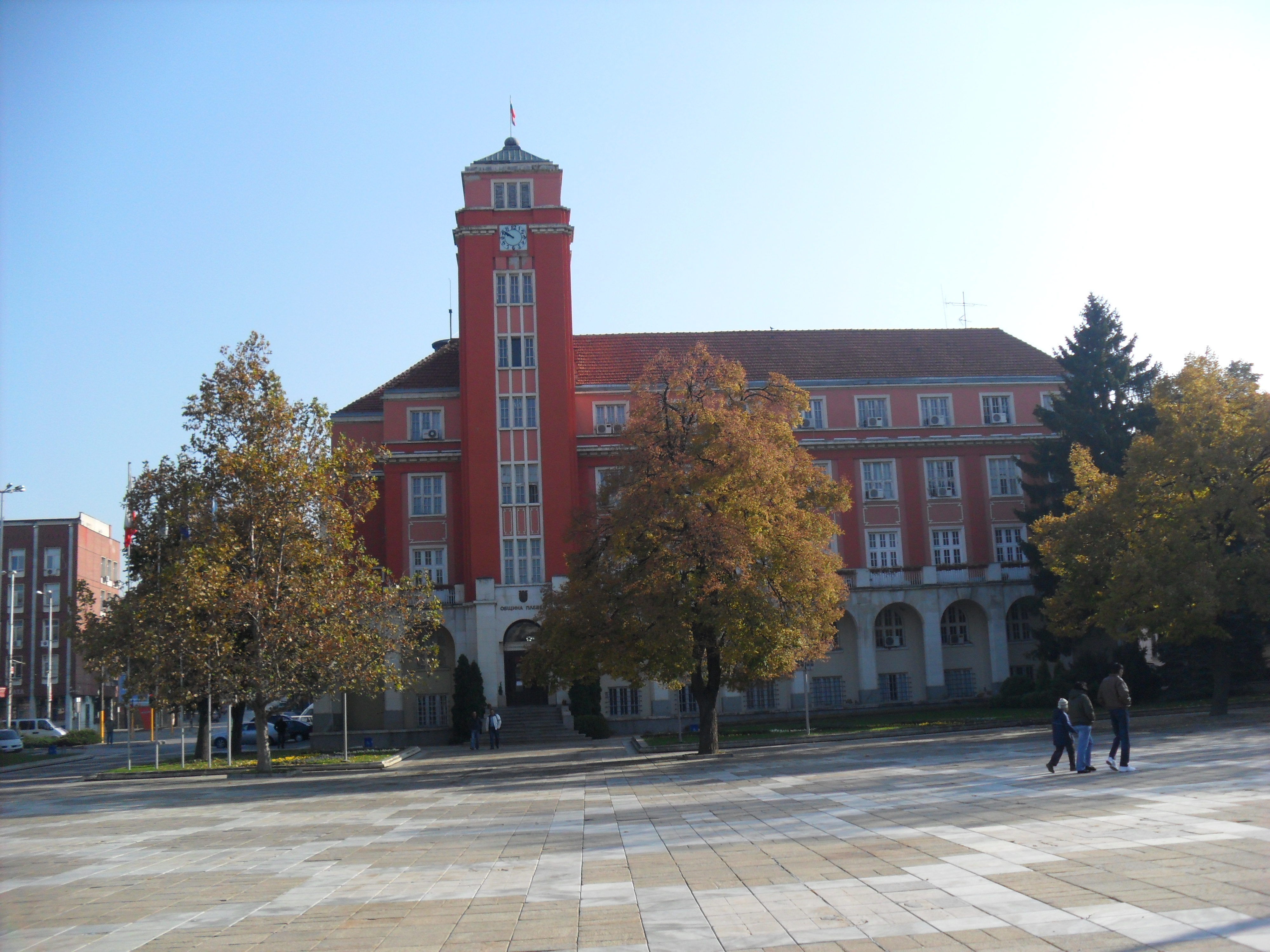 The town hall in Pleven